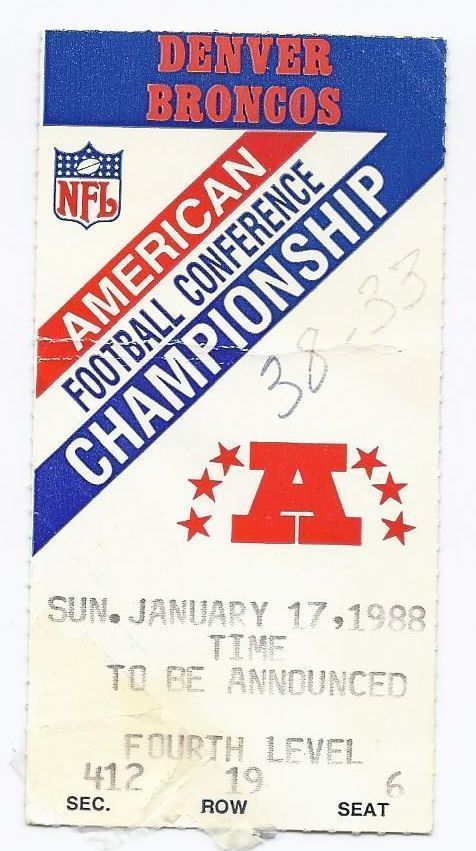 A ticket for the 1988 AFC Championship Game featuring the Cleveland Browns versus the Denver Broncos at Mile High Stadium on January 8, 1988.